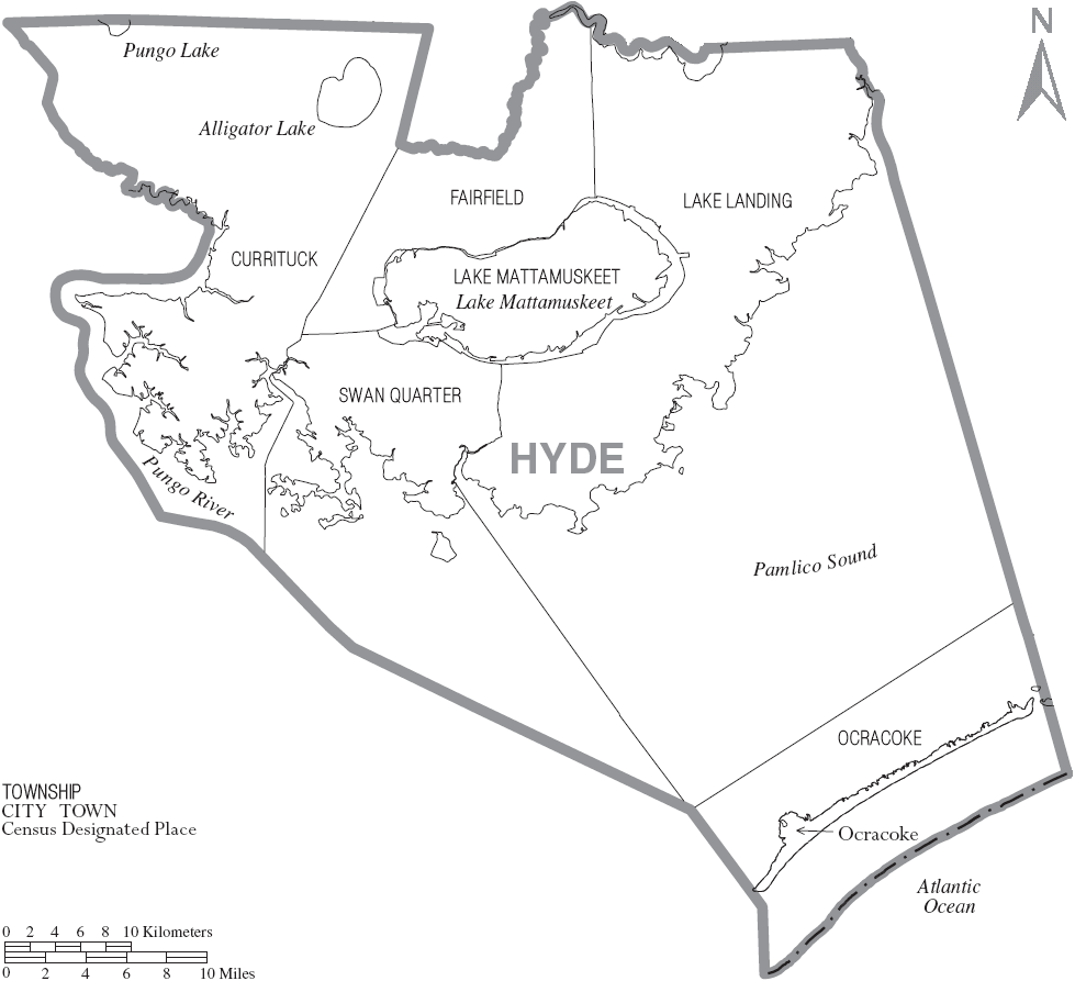 Map of Hyde County, North Carolina, United States with township and municipal boundaries